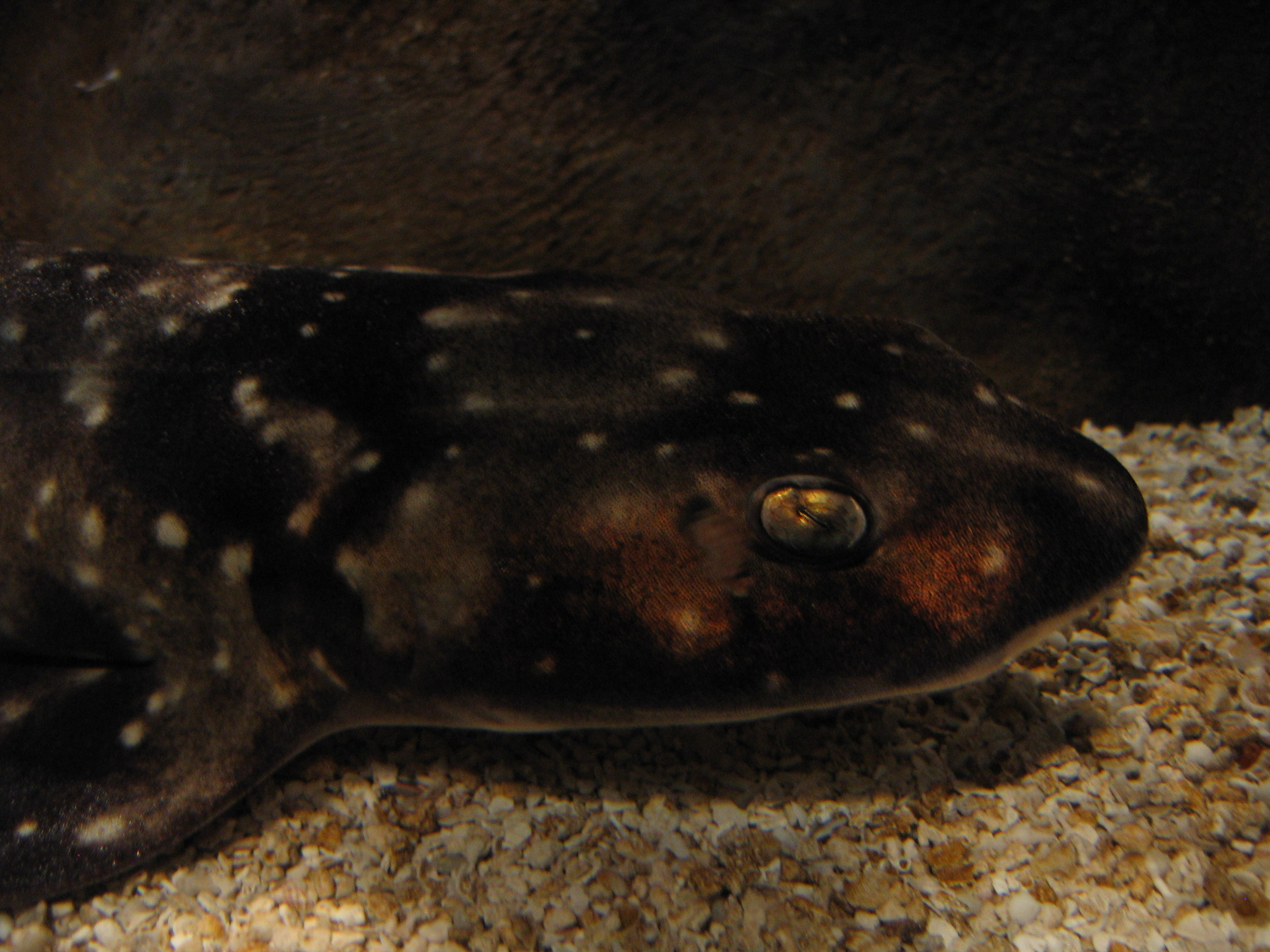 Dark shyshark (Haploblepharus pictus) at the Newport Aquarium.